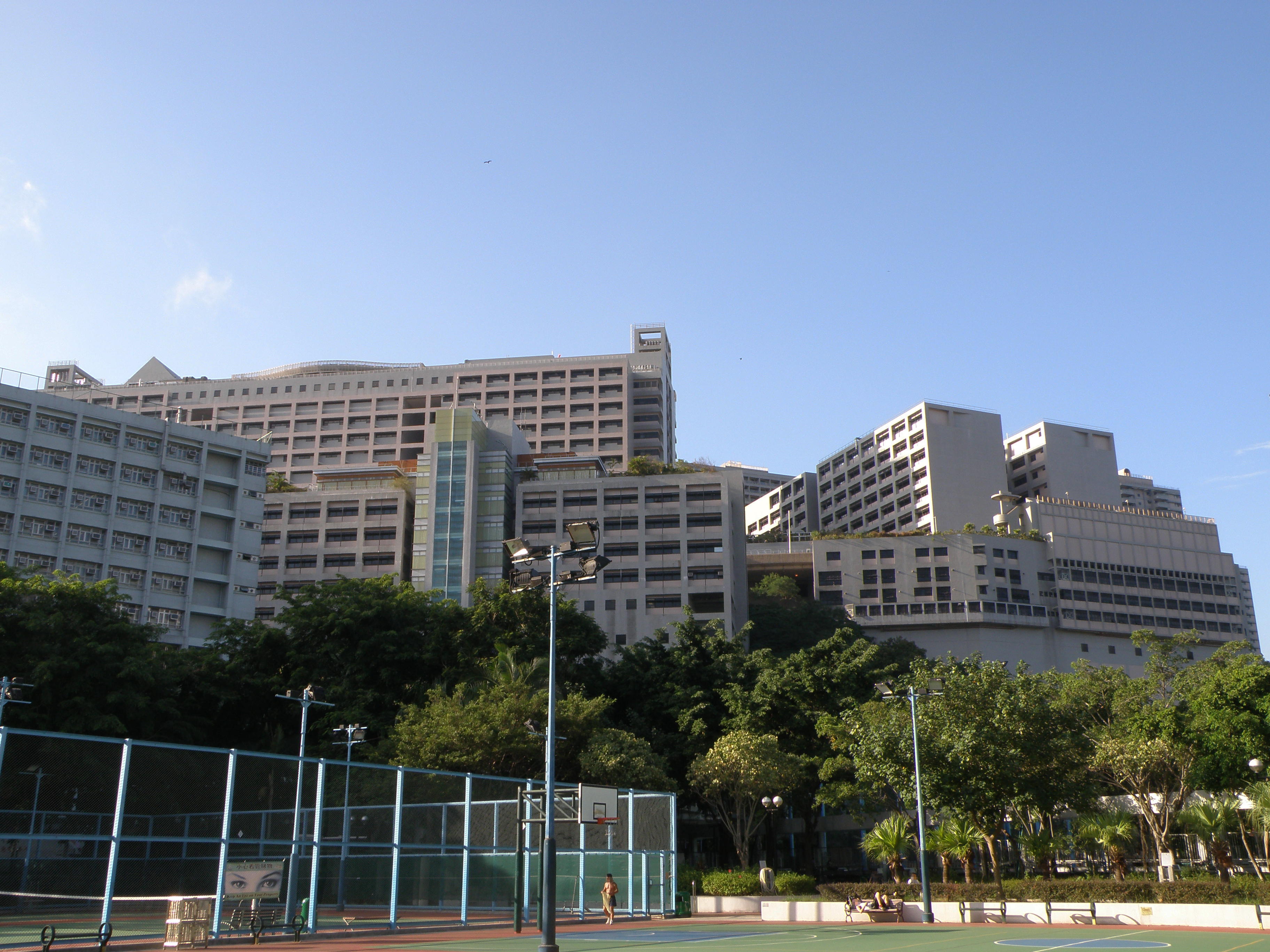 Pamela Youde Nethersole Eastern Hospital in Chai Wan, Hong Kong.